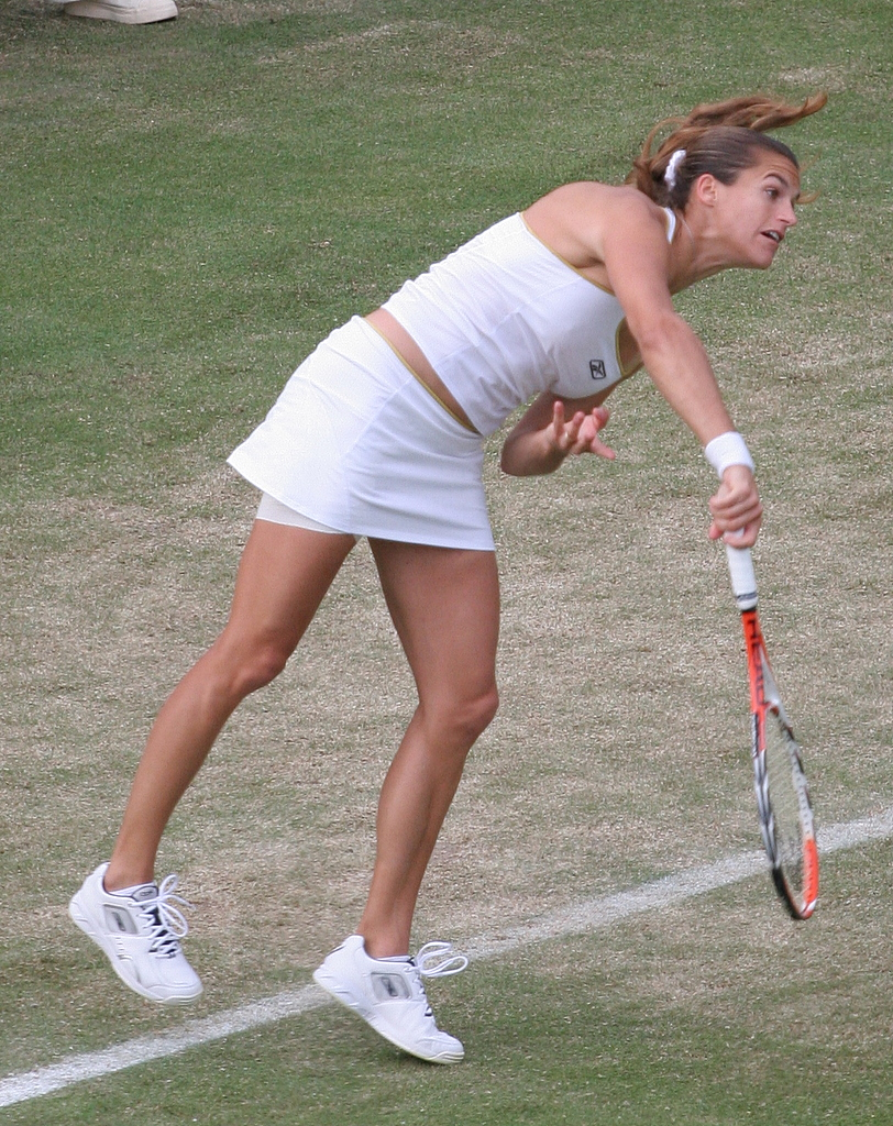 Amélie Mauresmo served at Wimbledon 2007.